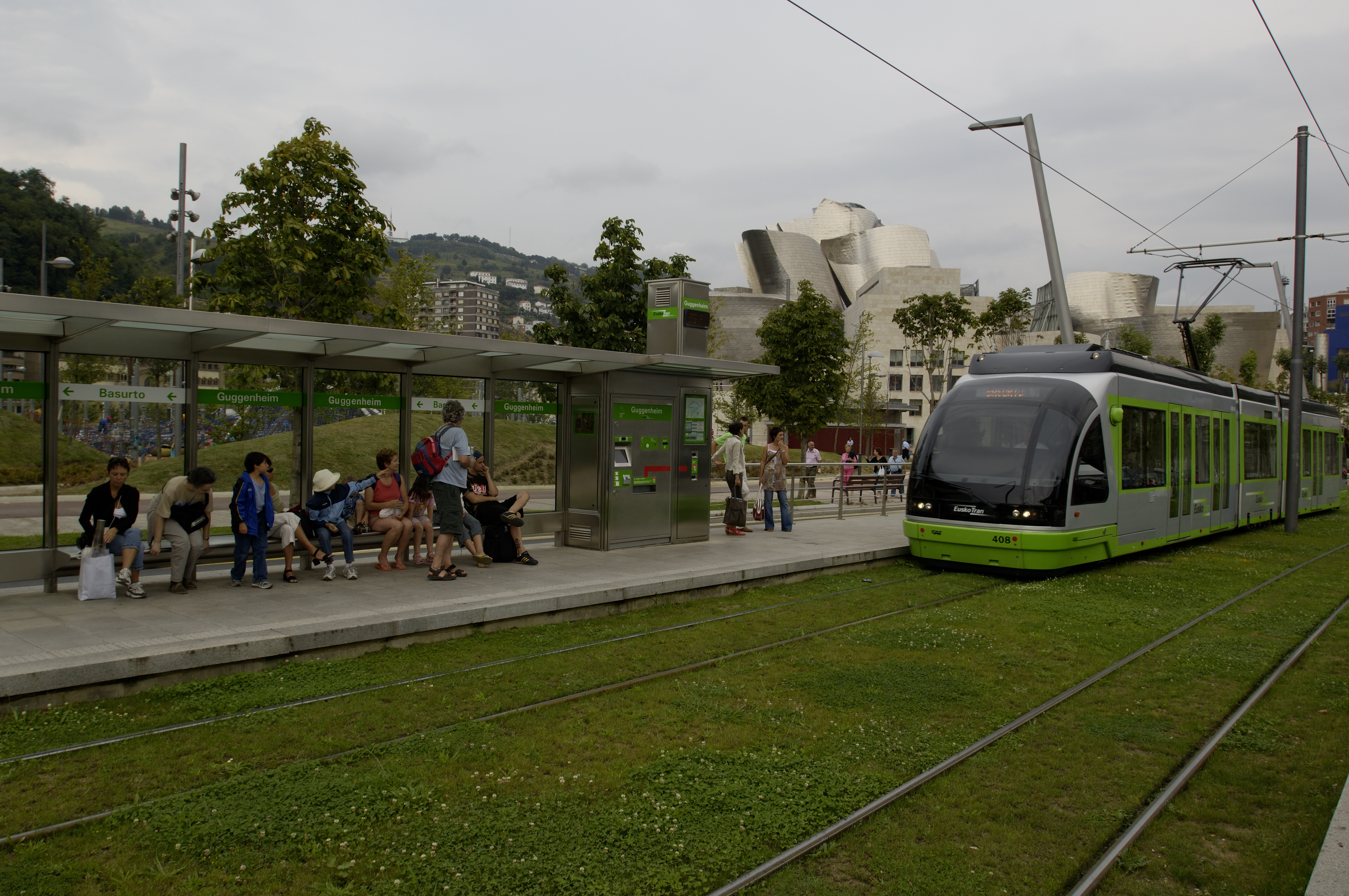 Euskotren Tranbia Guggenheim station Bilbao tram